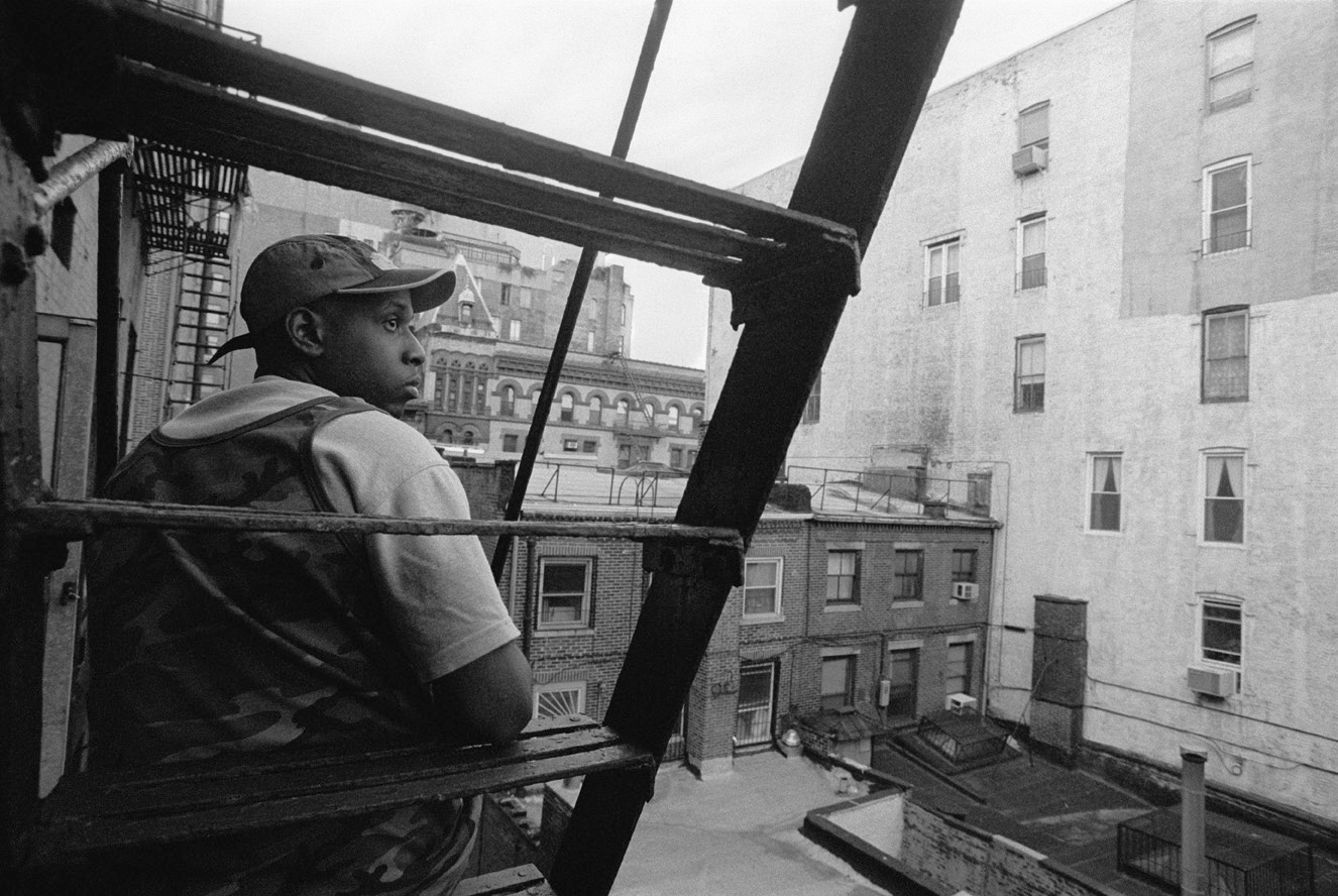 Talib kweli, NYC 1999, at Rawkus Records firestaircase